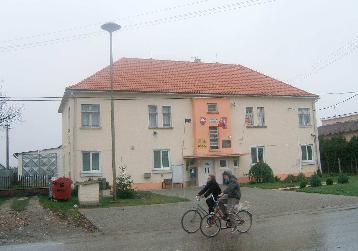 The Municipal office Rastislavice, 2009